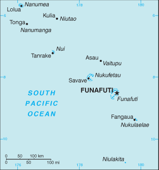 CIA map of Tuvalu